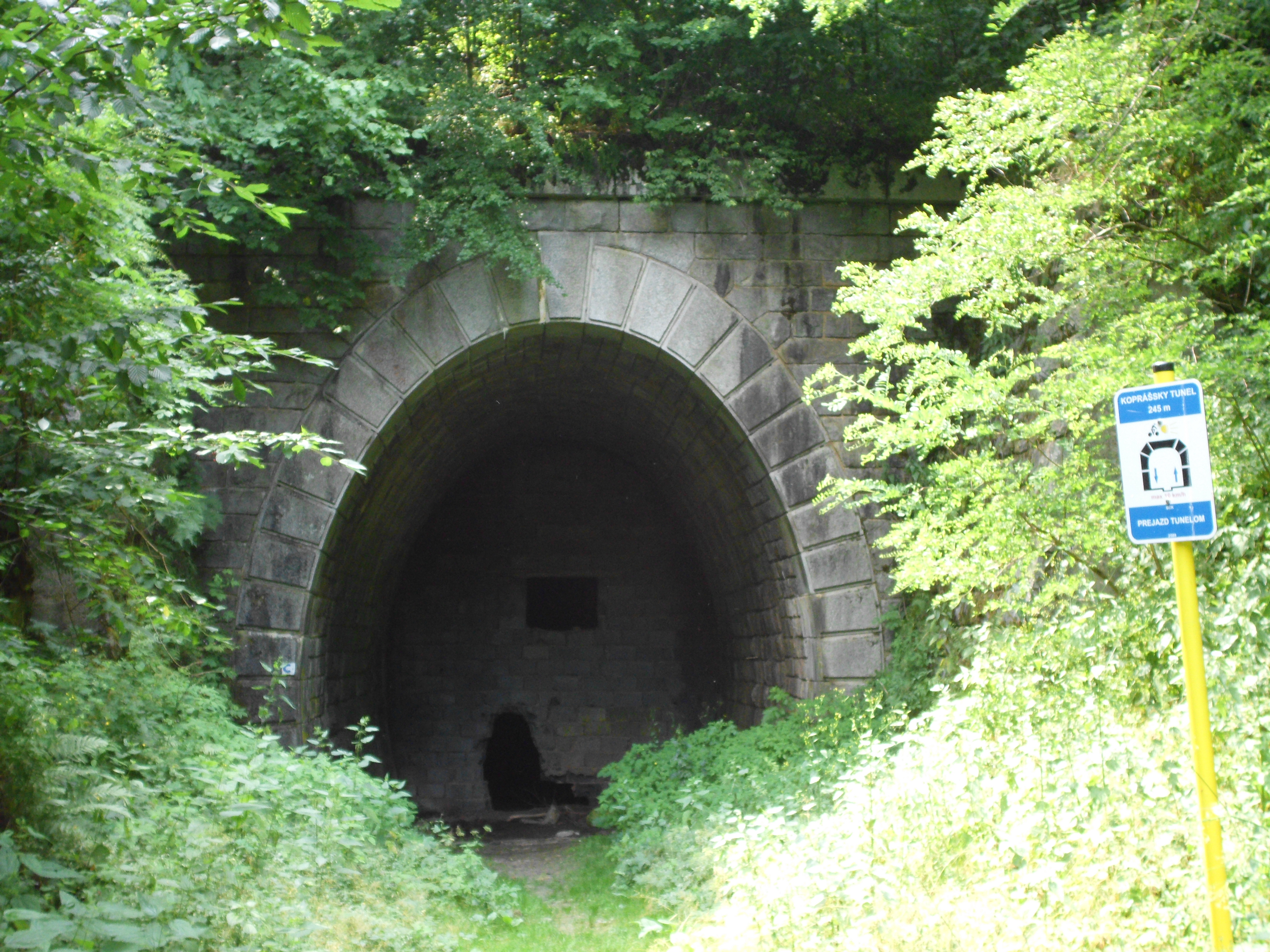 The eastern portal of "Koprášsky tunel", a tunnel on an unfinished rail line from Lubeník to Slavošovce in Slovakia. It is named after a nearby village of Kopráš, a part of Magnezitovce municipality.